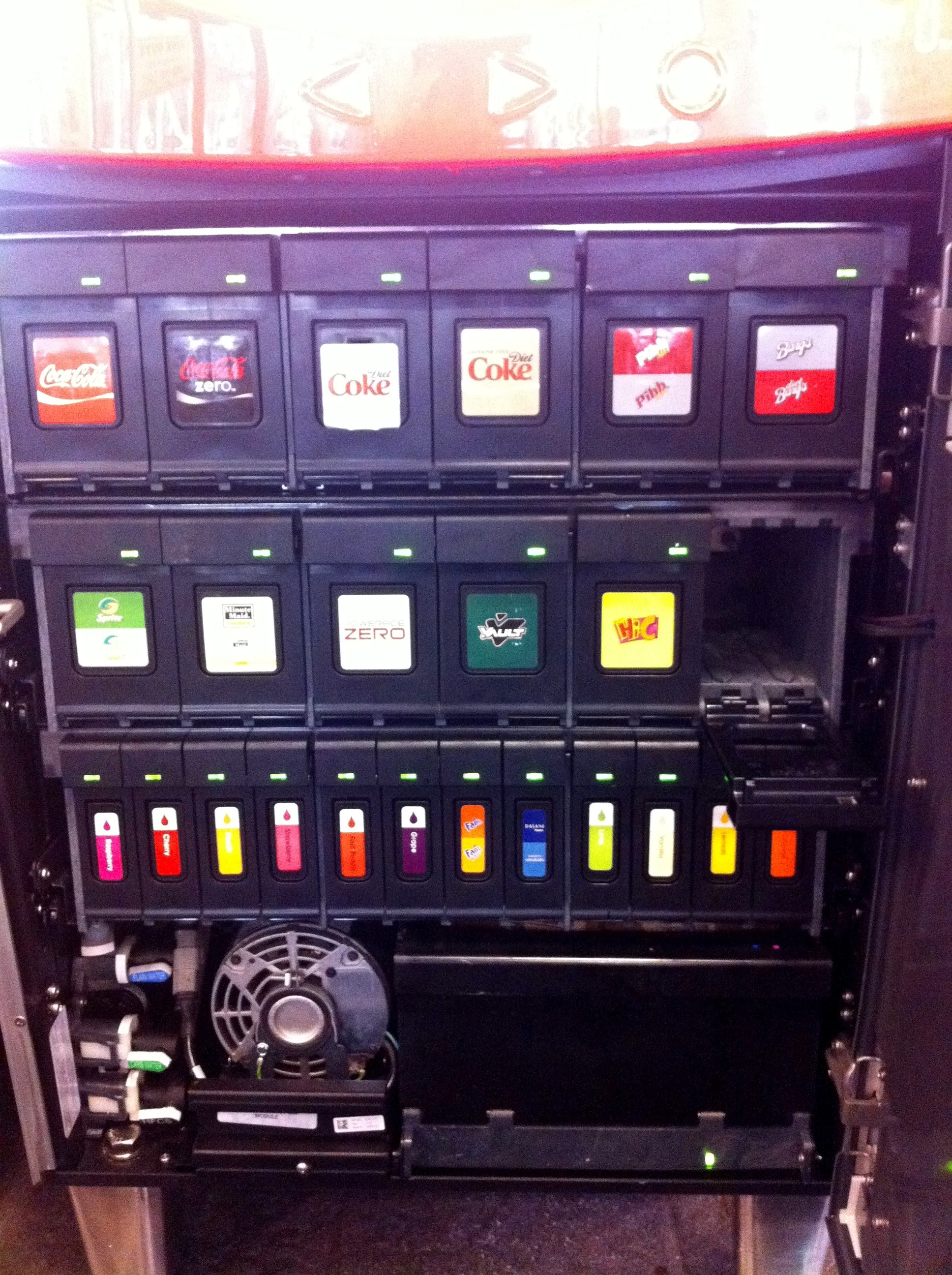 This is the maintenance panel of the custom Coke machine near our office. All the flavors are in little cartridges, almost like printer ink cartridges. You select what combo of flavors you want, and it mixes it on the spot. Grape Diet Coke? Yeah, they got that.